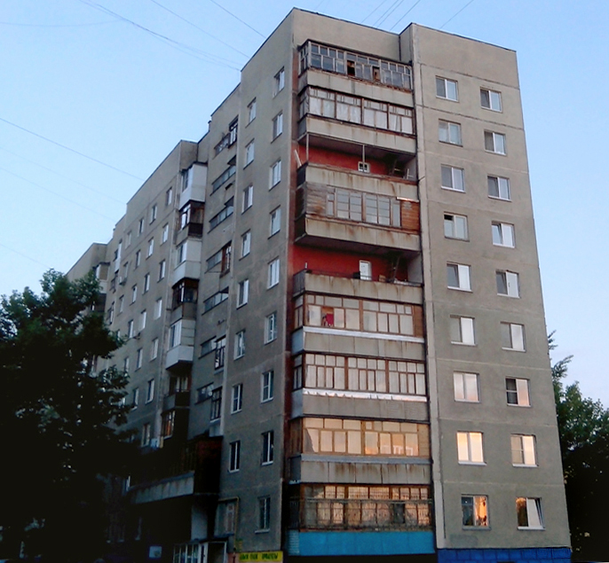 9-этажный панельный дом серии 111-108, Уфа, Башкирия